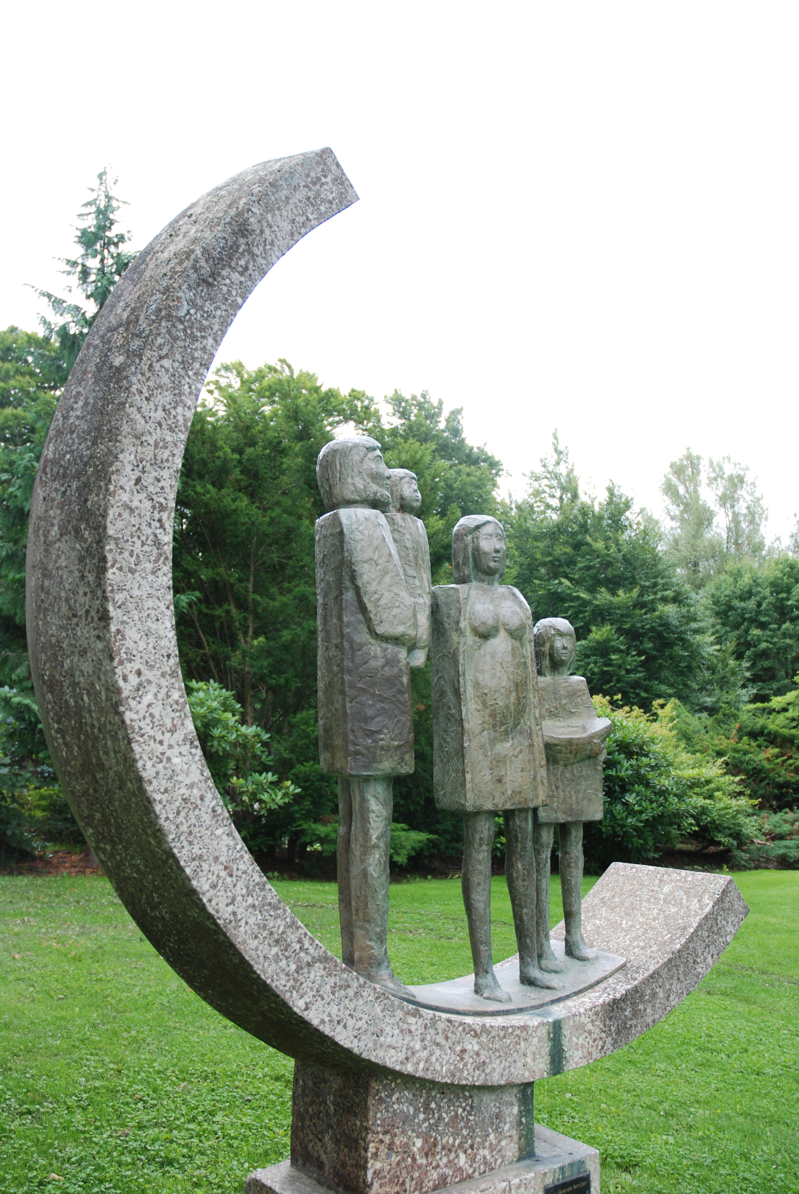 Bertil Bagare-Kindgrens Den växande familjen, 1974, i Örebro stadspark